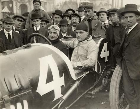 Eddie Pullen poses in his Mercer before either the 1915 American Grand Prize and Vanderbilt Cup in San Francisco.